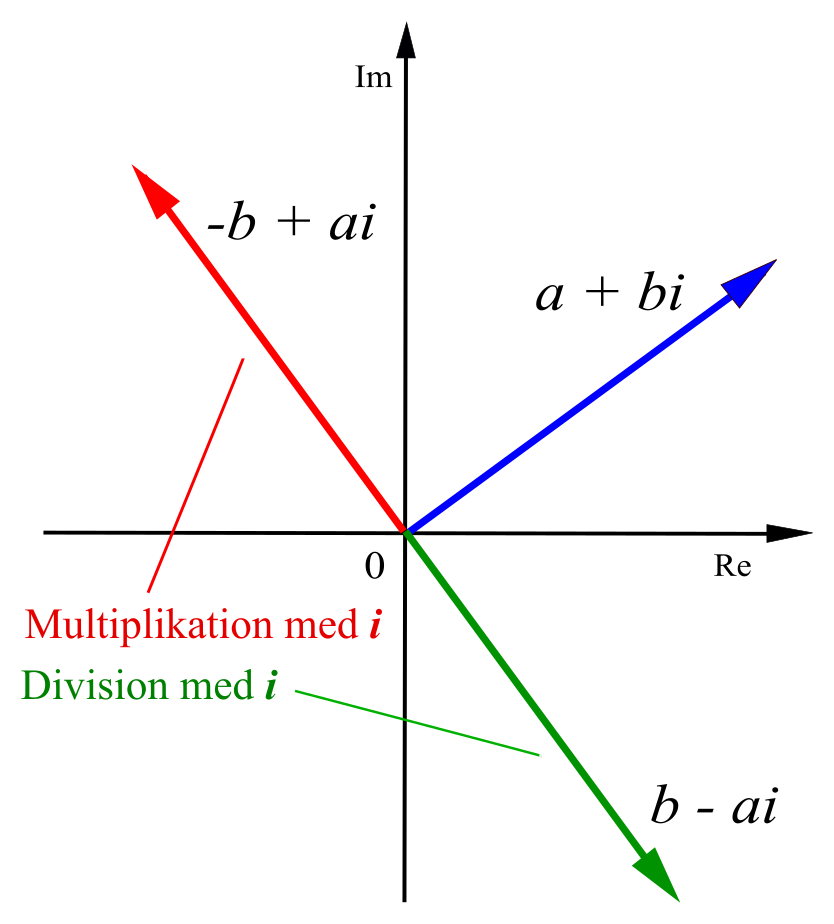 Multiplication with i